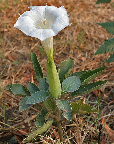 Datura inoxia - thorn-apple, downy thorn-apple, Indian-apple, moonflower, sacred datura, toloatzin, devil’s trumpet or toloache near Hyderabad, India.